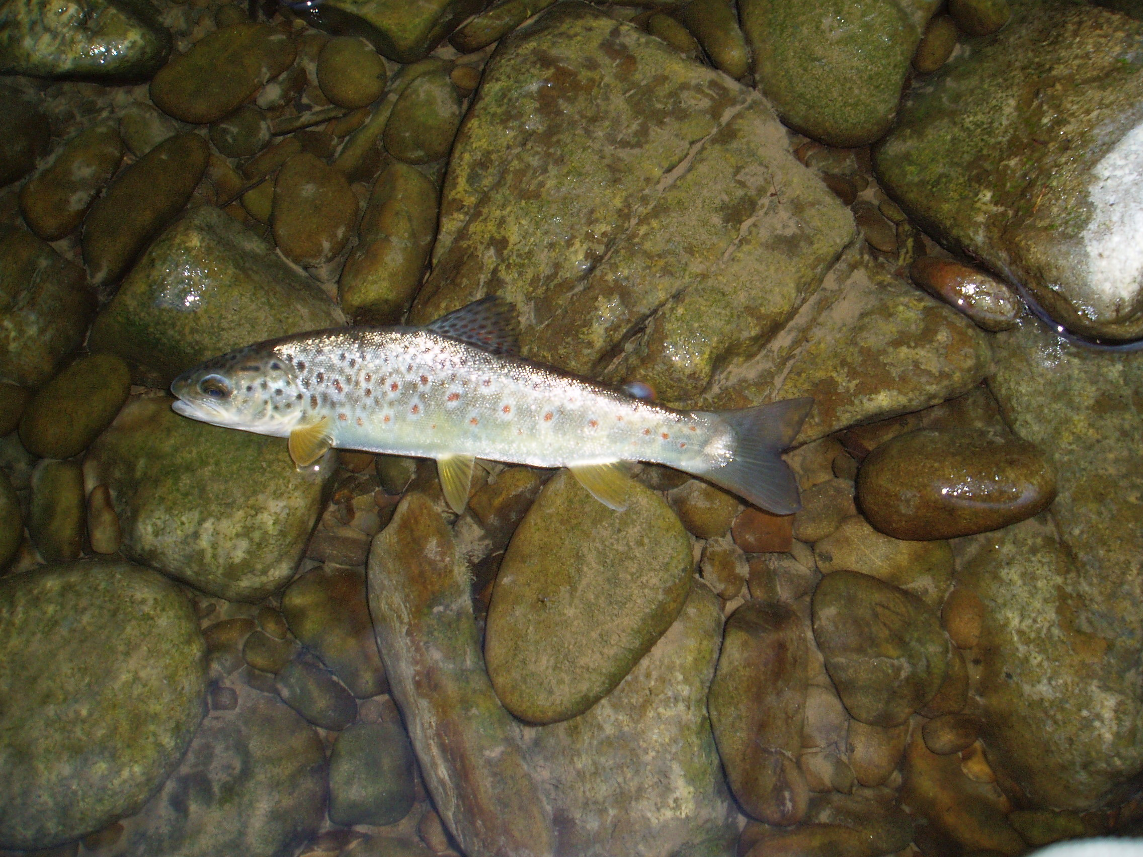 Young brown trout from the river Reka, Slovenia